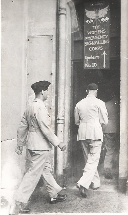 Soldiers enter the WESC building at 10 Clarence St, Sydney.